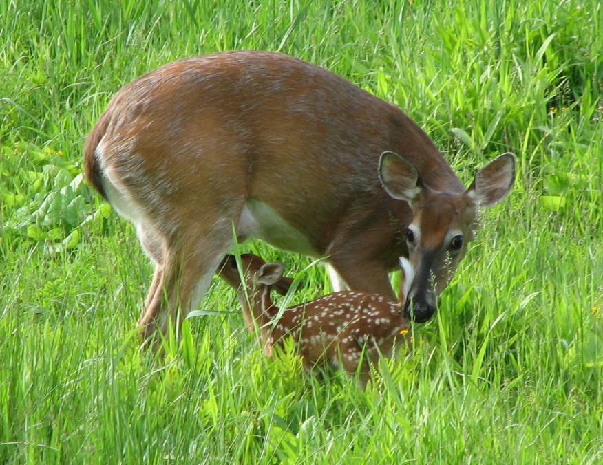 Whitetail doe (Odocoileus virginianus) & fawn, Newark, OH. Most first fawns are singles. The second or third timed a doe breeds she usually has twins. Does may bear triplets or even quadruplets.